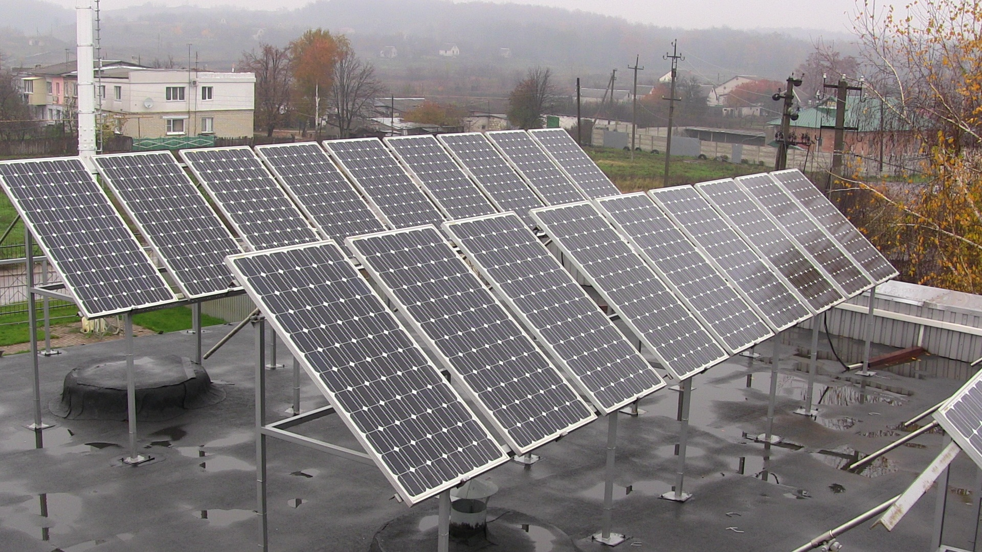 This rooftop solar power plant is loacted in Kharkiv region and is a part of Vostok Energy Park microgrid.